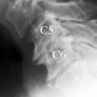 Arthritis of the Cervical Spine